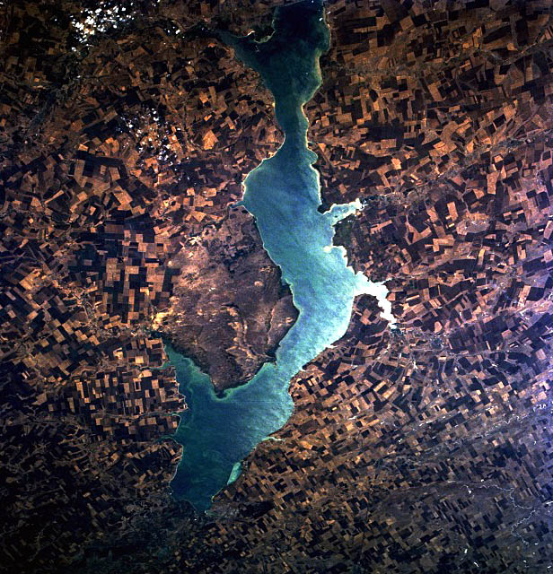 Tsimlyansk Reservoir, Russia - October 1994 image description here